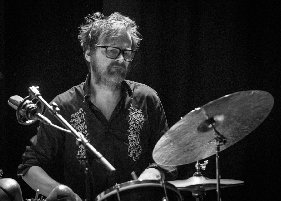 Erland Dahlen with Geir Sundstøl in Forstanderskapssalen in Sentralen. The concert was part of Oslo Jazzfestival and took place on 18. August 2017 in Oslo. Lineup: Geir Sundstøl (guitar) and Erland Dahlen (percussion).